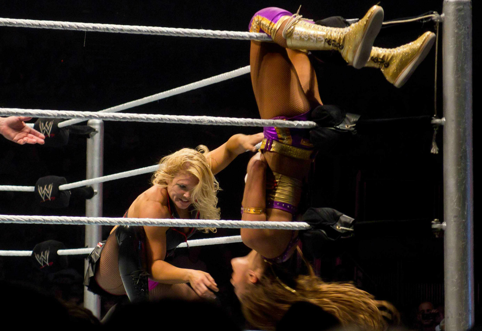 Beth Phoenix during a match against Eve Torres at a live event.